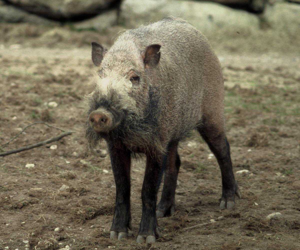 Bearded pig (Sus barbatus) at Munich Zoo